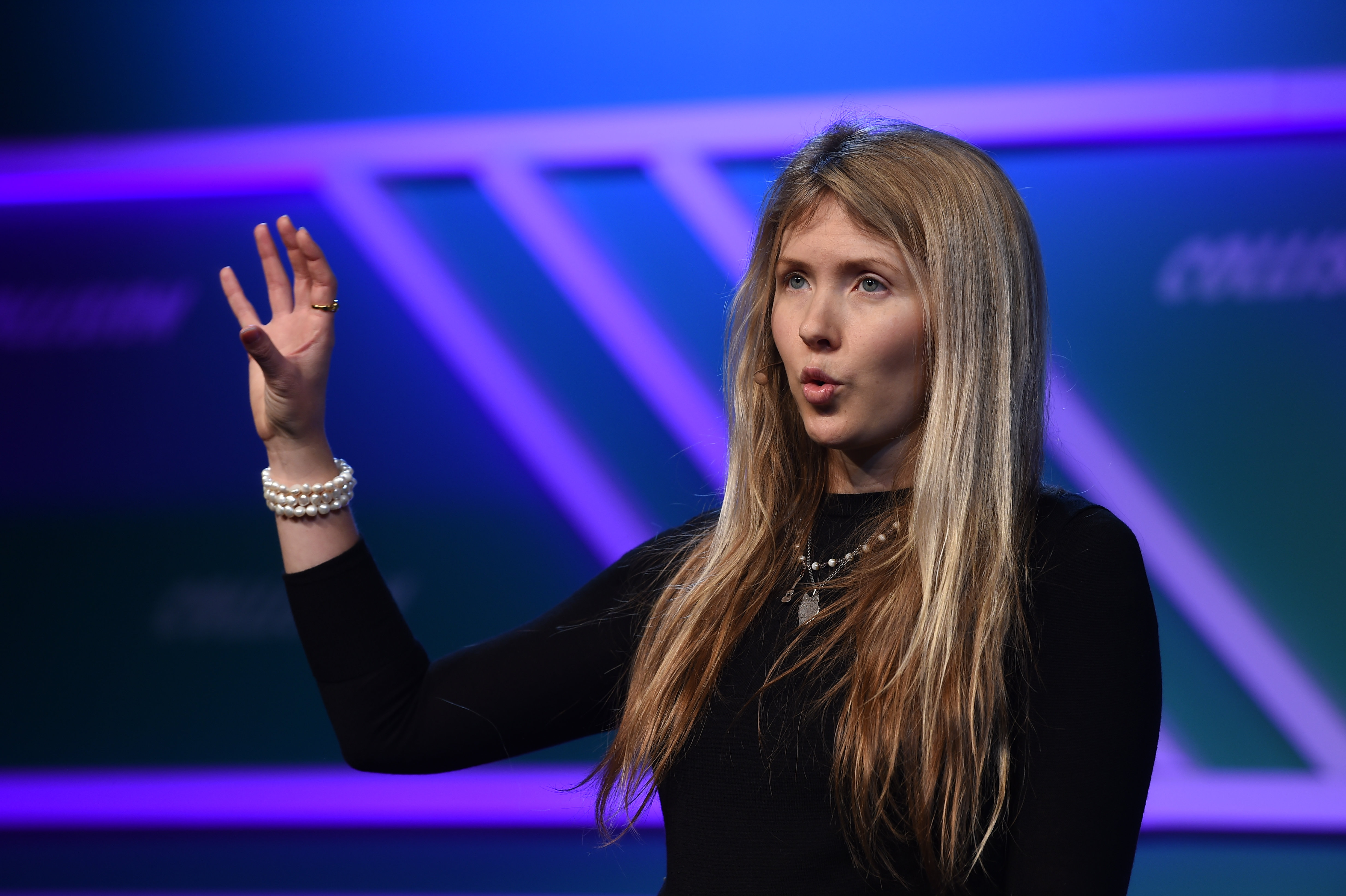 3 May 2018; Beatie Wolfe, Musician, on the MusicNotes Stage during day three of Collision 2018 at Ernest N. Morial Convention Center in New Orleans. Photo by Diarmuid Greene/Collision via Sportsfile